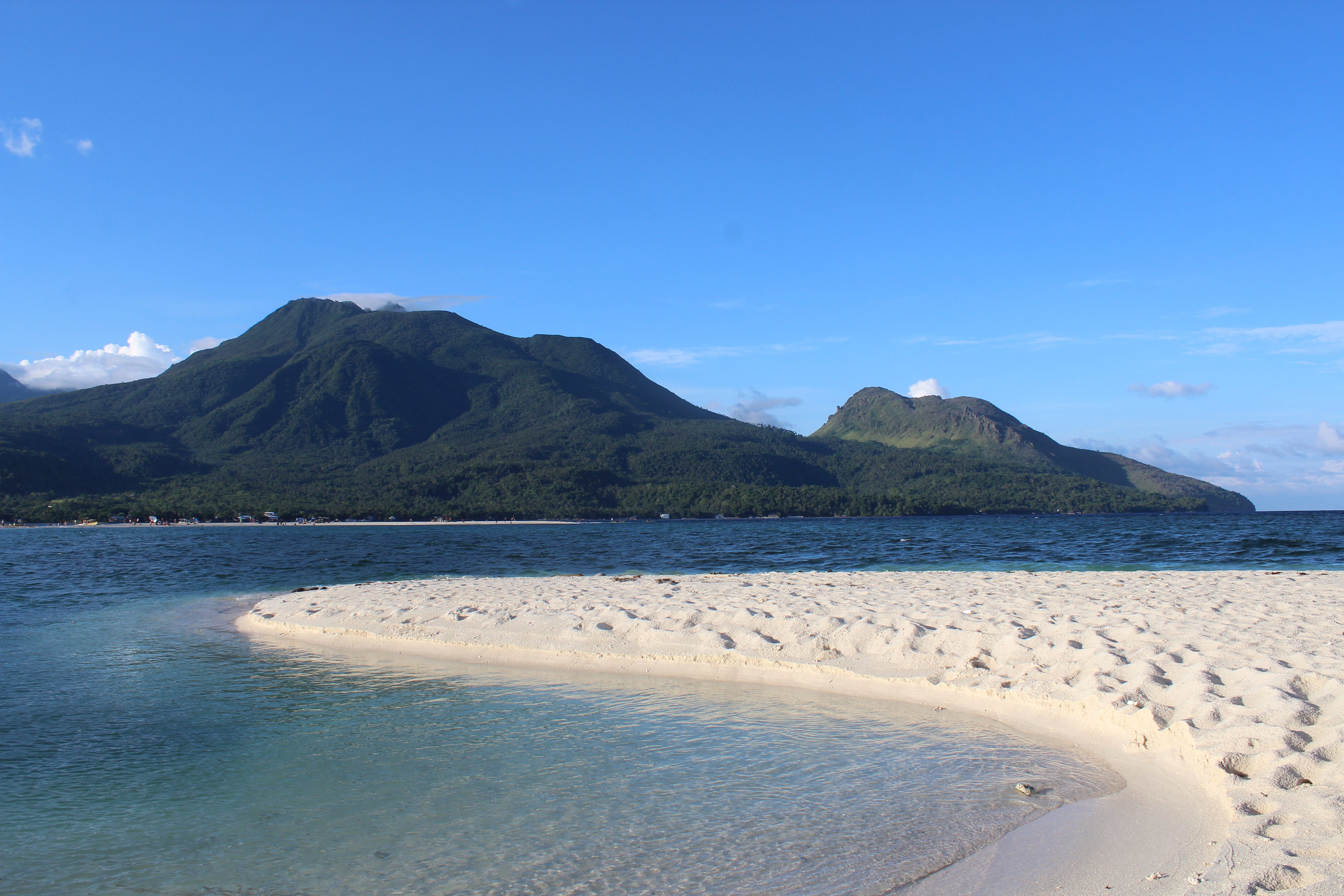 View from White Island on Mt. Hibok-Hibok on the left, and the smaller Camiguin volcano on the right side.